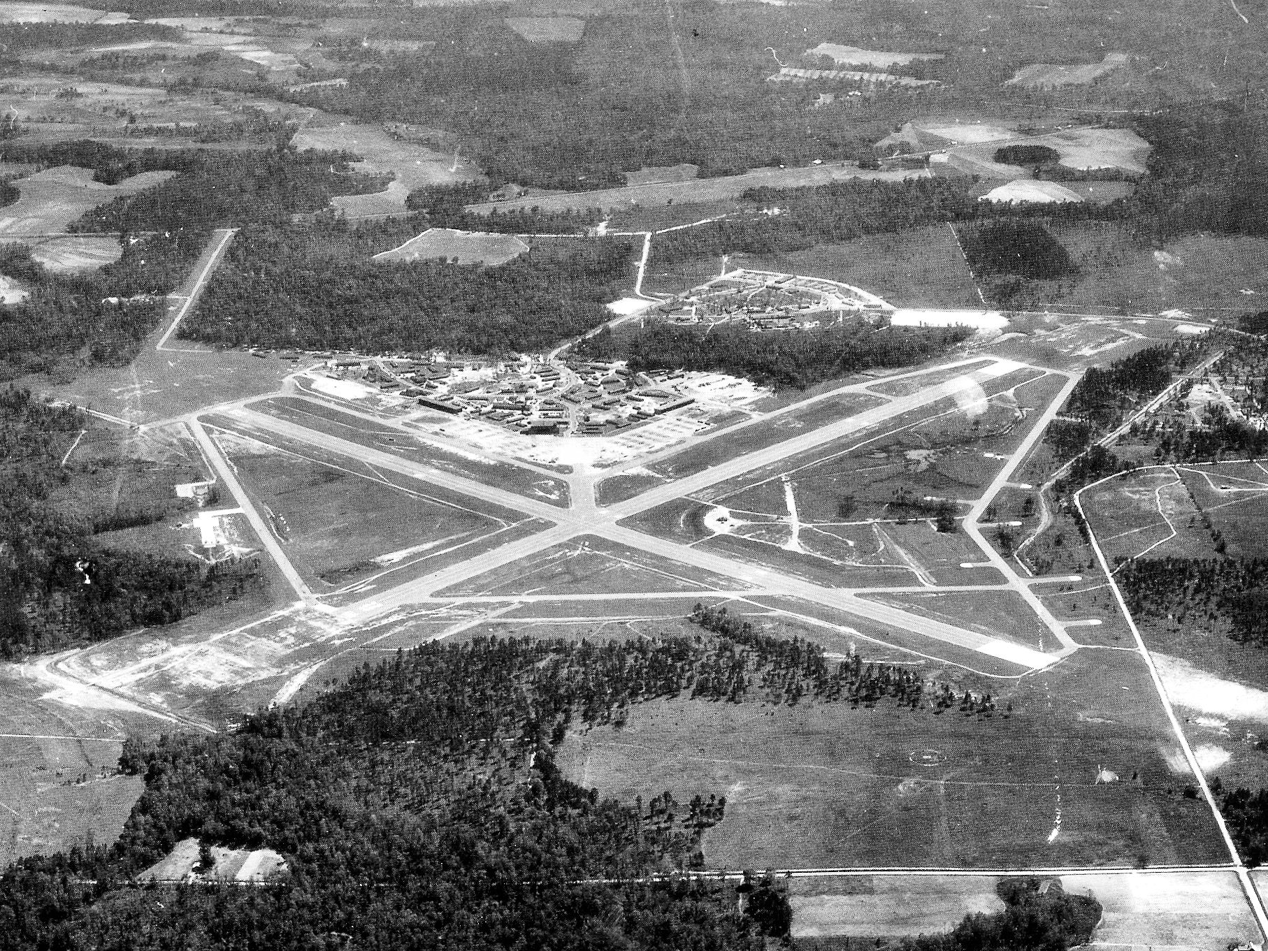 Airphoto of Thomasville Army Airfield, Georgia